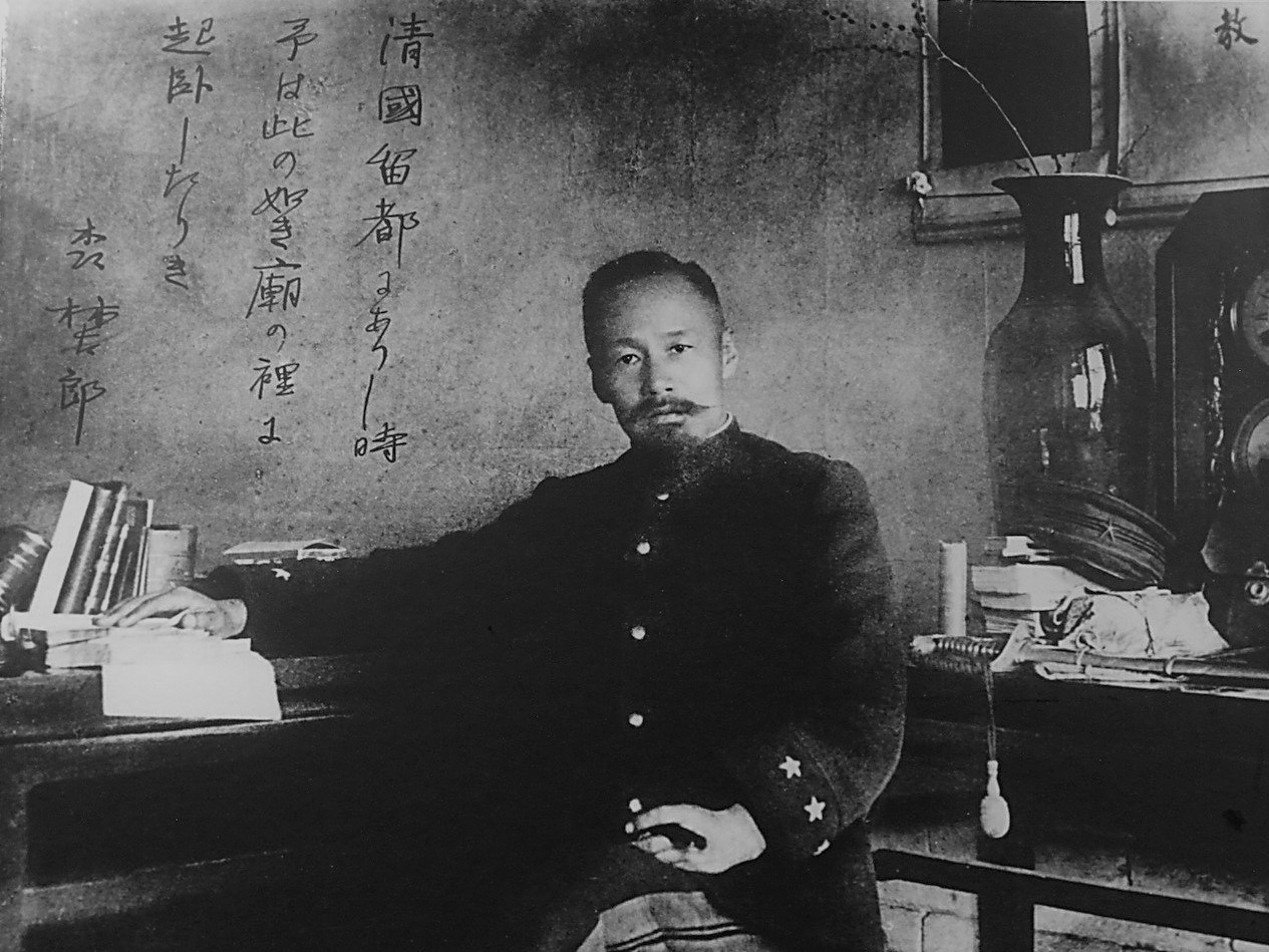 Mori Ōgai in Manchuria during Russo-Japanese War, 1905.